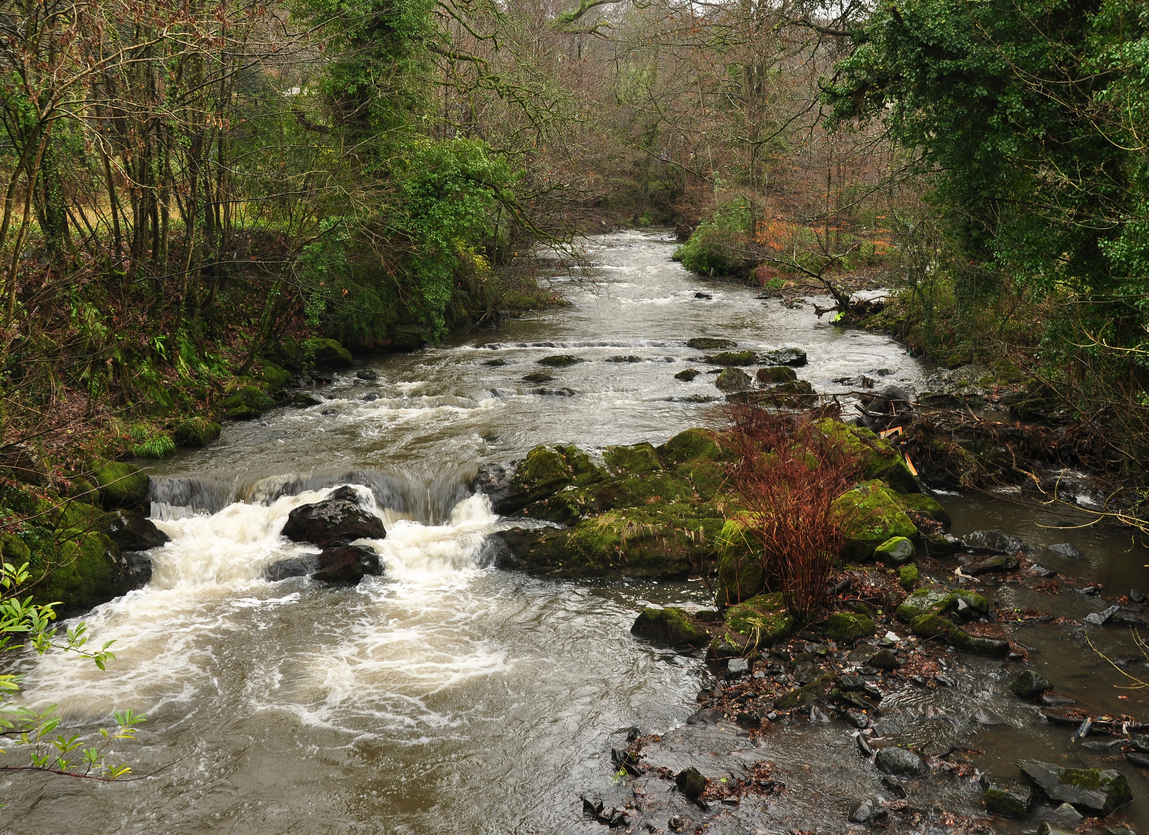 The River Okement from Knowle Bridge, at the northern edge of Okehampton, Devon.